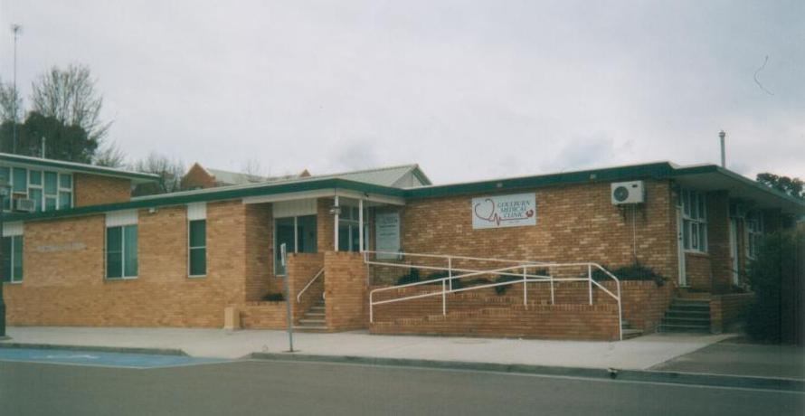 Taken by myself, and released into public domain.